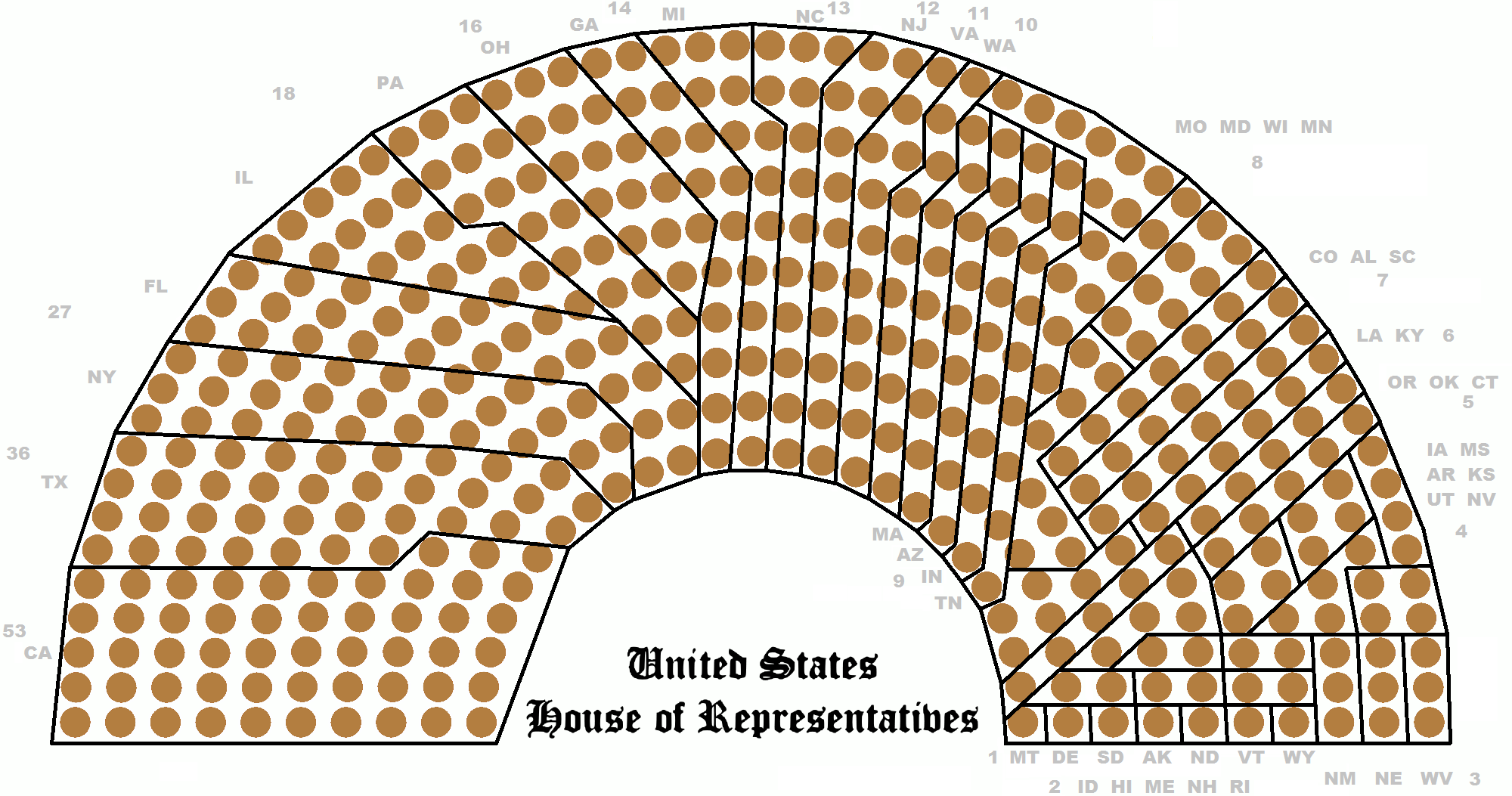 Diagram of the US House of Representatives showing all 435 voting seats grouped by state. Largest-to-smallest states are shown in a generally left-to-right clockwise flow. - The 9 largest states have a majority of the seats/votes, with the other 41 having less than half. - The four largest states (CA, TX, NY & FL) have more combined votes than 34 of the smallest states. - California by itself has more votes than 21 of the smallest states combined. - Texas by itself has more votes than 17 of the smallest states put together. These facts can be understood as a straightforward matter of larger populations requiring a greater number of seats to represent them, per the principles of representative democracy. What this image also illuminates is the converse situation, the problem of the Senate, where states are given two votes each regardless of the number of people that a single Senator represents. At the time the Senate was created, the most populous state (Virginia) had roughly 10 times as many people as the least populous state (Delaware). This imbalance has been greatly magnified to the current situation where the most populous state today (California) has nearly 70 times as many people as the least populous state (Wyoming). See Malapportionment. This Washington Post article from 2013 has a graph that shows how grossly imbalanced the Senate representation is: Seat apportionment presented in this diagram can be verified at this table.